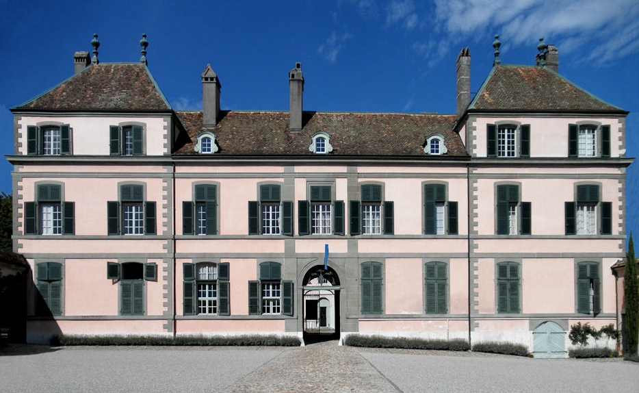 Castle of Coppet, 1296 Coppet, Canton of Vaud, Switzerland